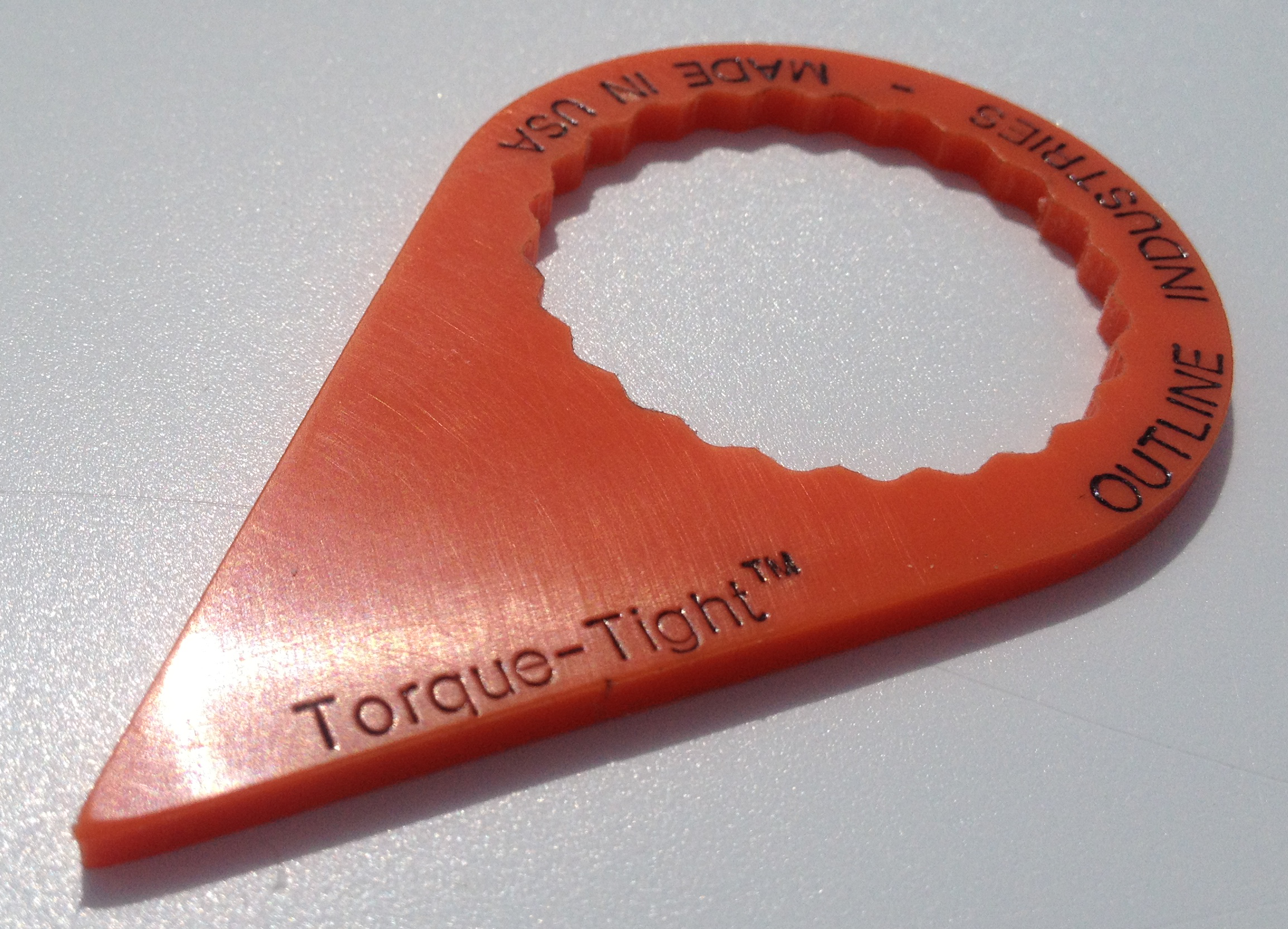 Lug nut indicator to let you know if your nuts are loose